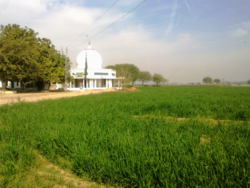 goraya